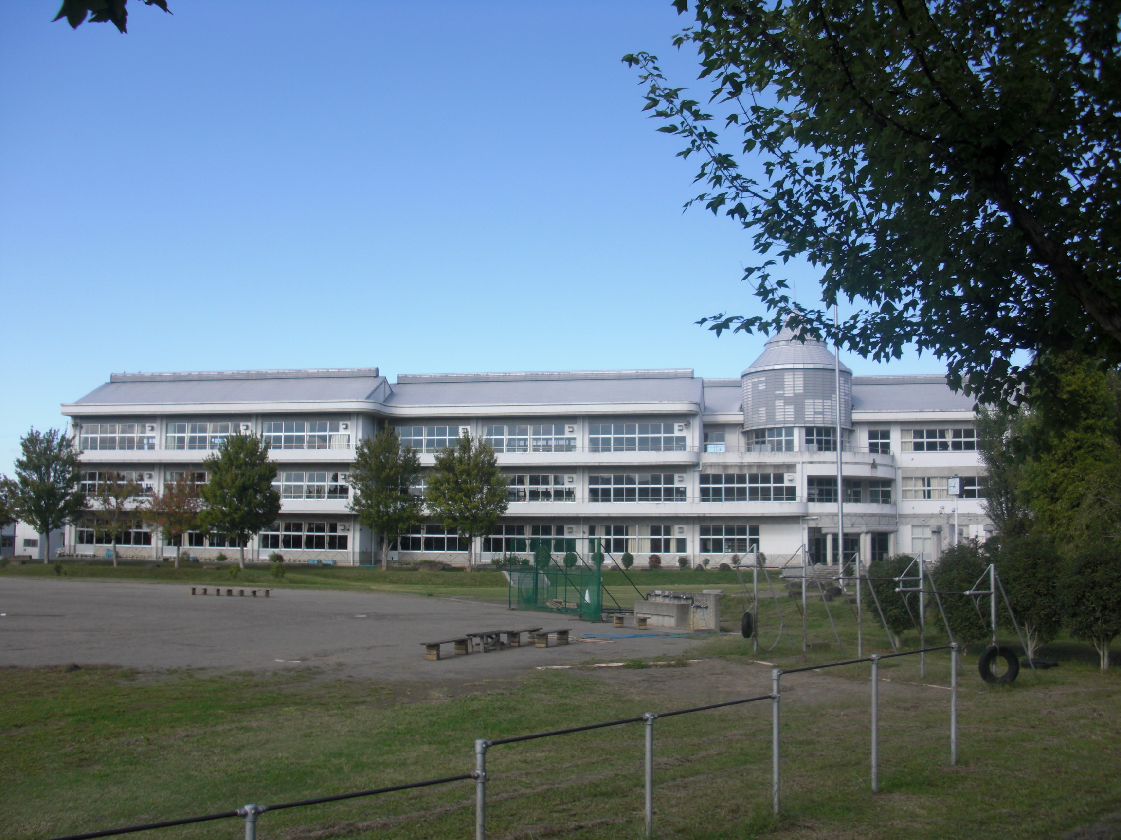 This is the Sakuragawa City Momoyama Junior High School, which is located in Sakuragawa, Ibaraki, Japan.